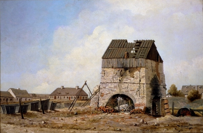 Painting, The Forges of the St. Maurice, Henry Richard S. Bunnett, 1886, Oil on canvas, 30.5 x 46 cm